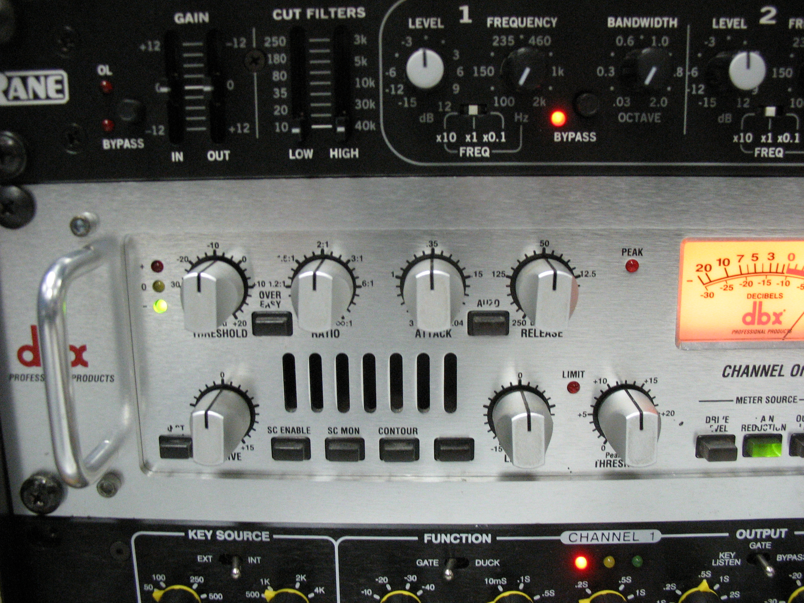 The DBX 566 stereo Tube audio compressor.